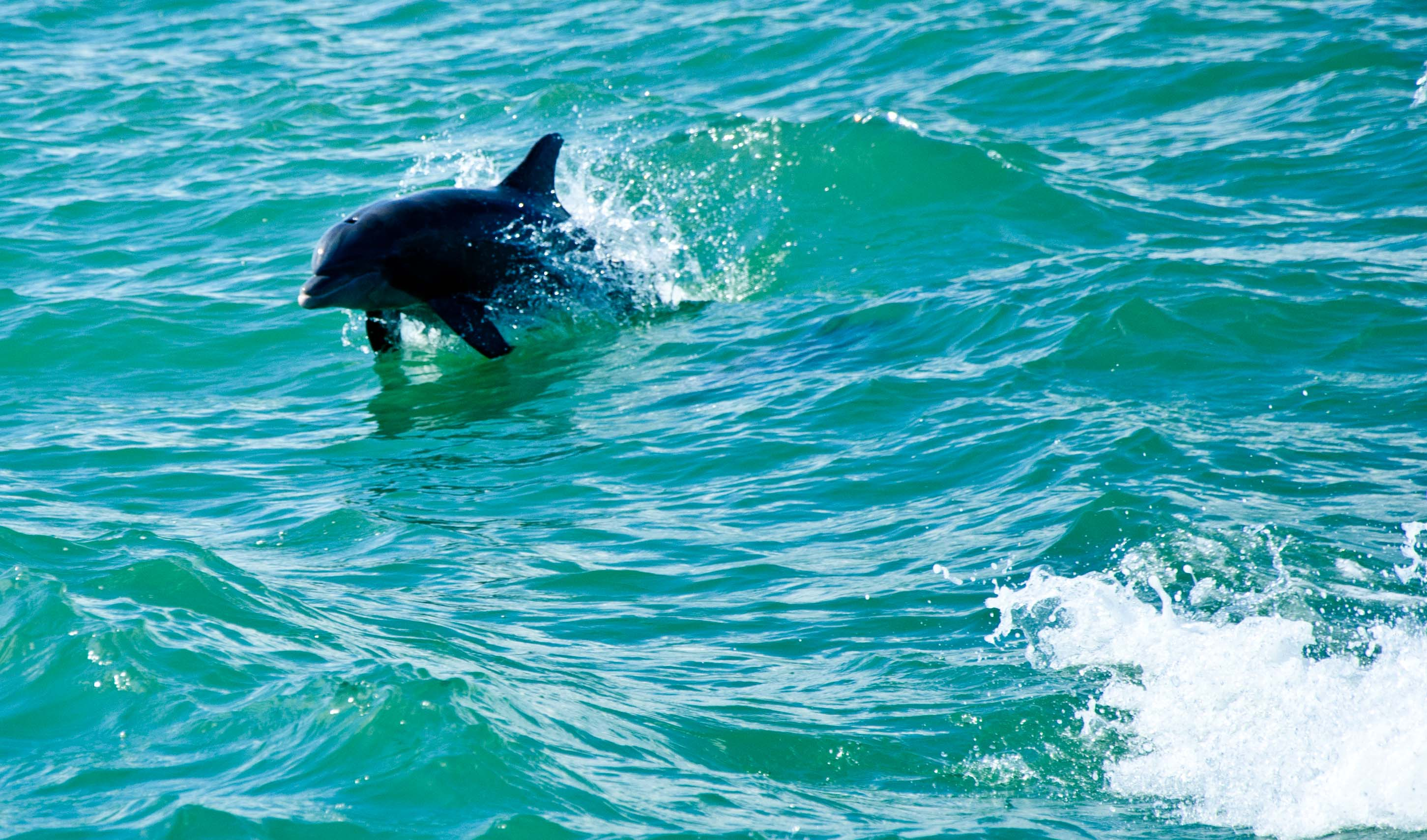 A dolphin in the water in Boca Raton, Florida.